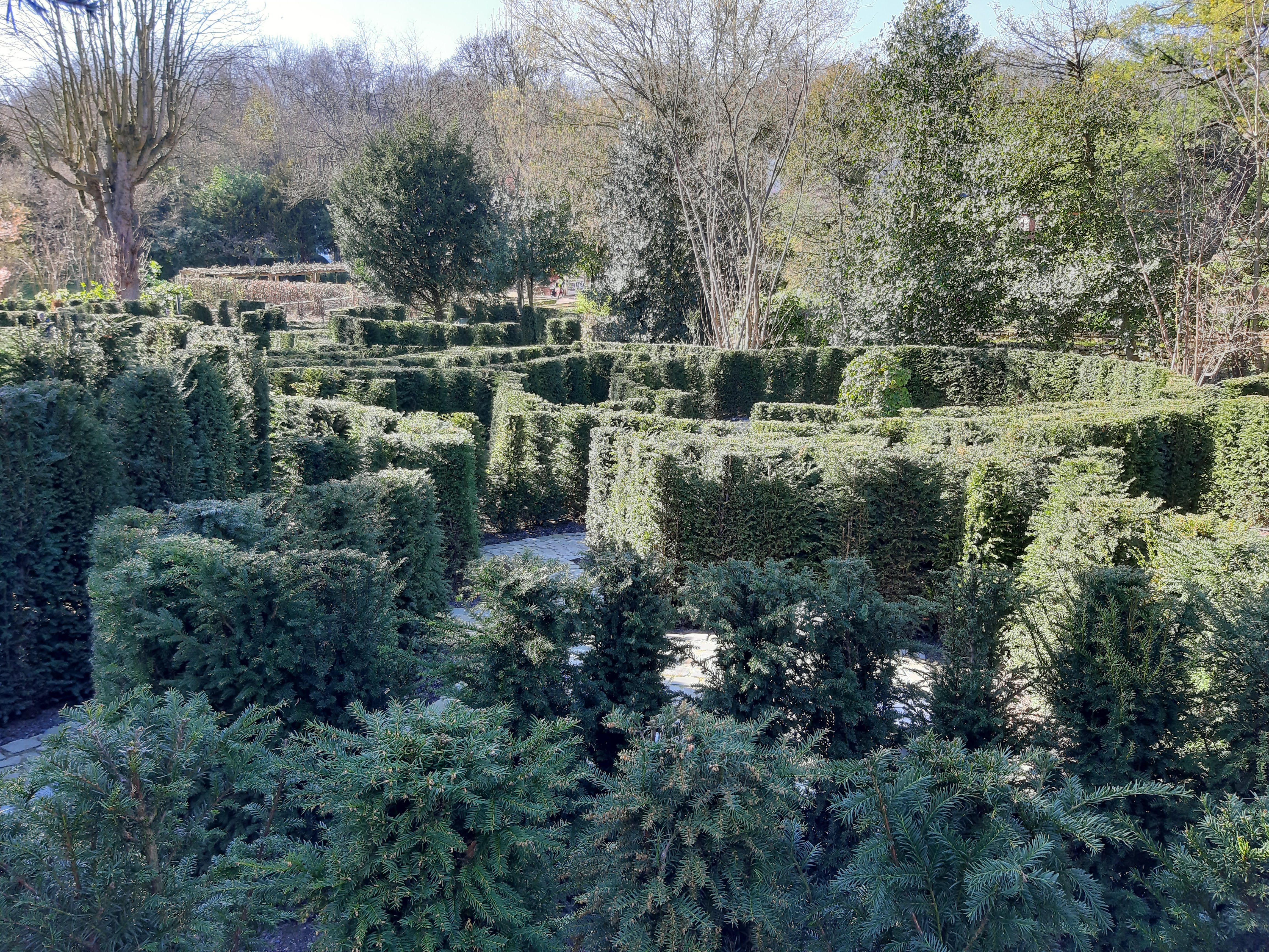 Museum Van Buuren